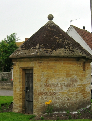 The village lock-up at Kingsbury Episcopi, Somerset, England